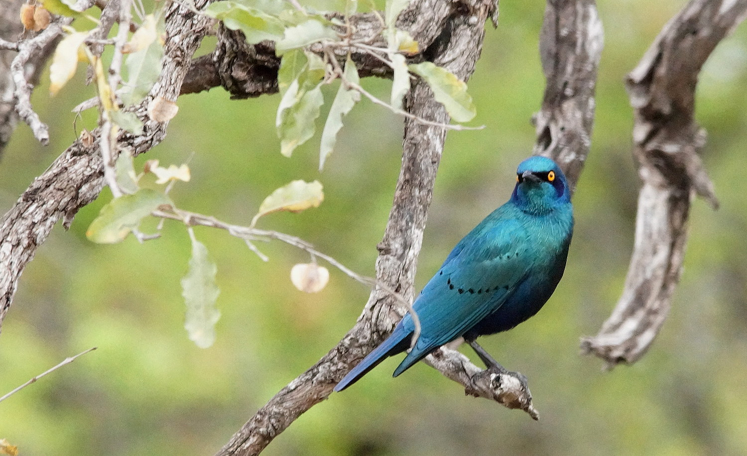 Greater Blue-eard Glossy Starling (Lamprotornis chalybaeus nordmanni) Kruger National Park, South Africa